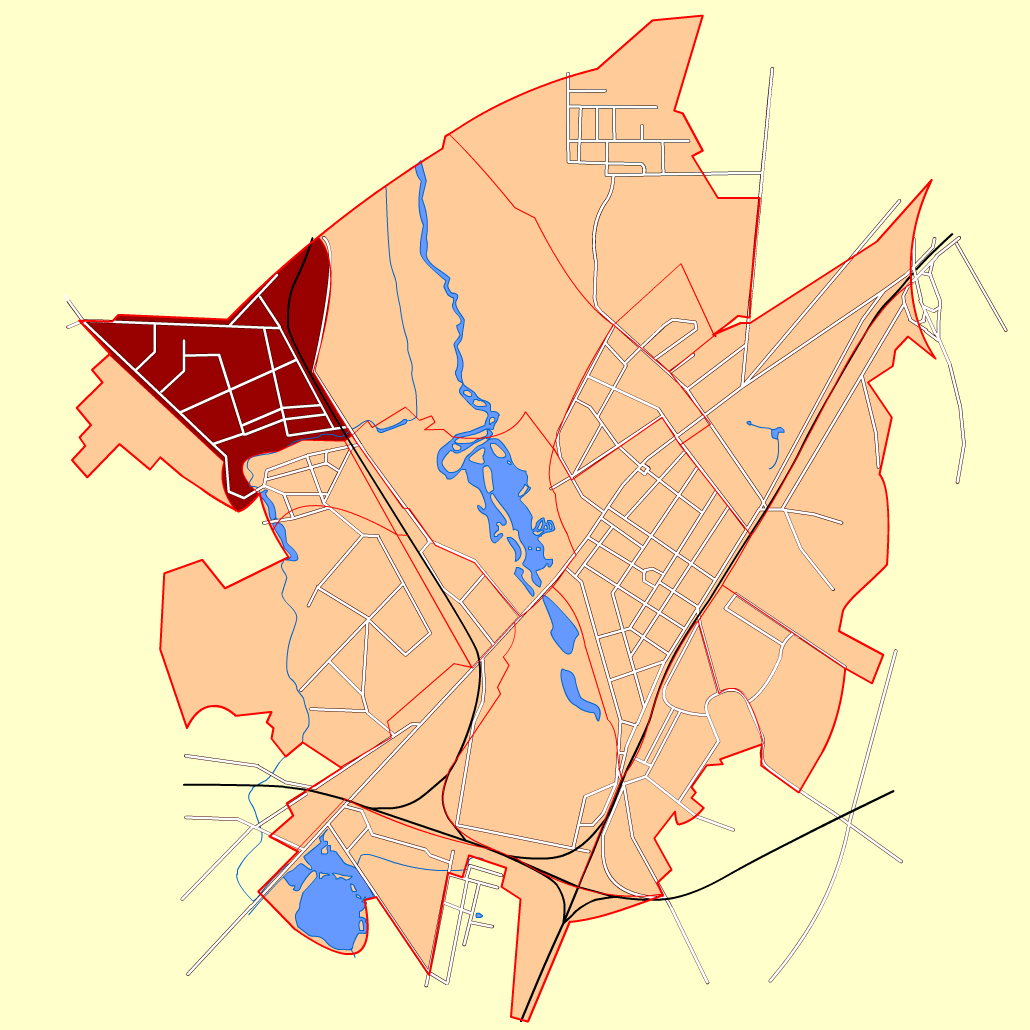 Microrayon Marienburg on the map of Gatchina